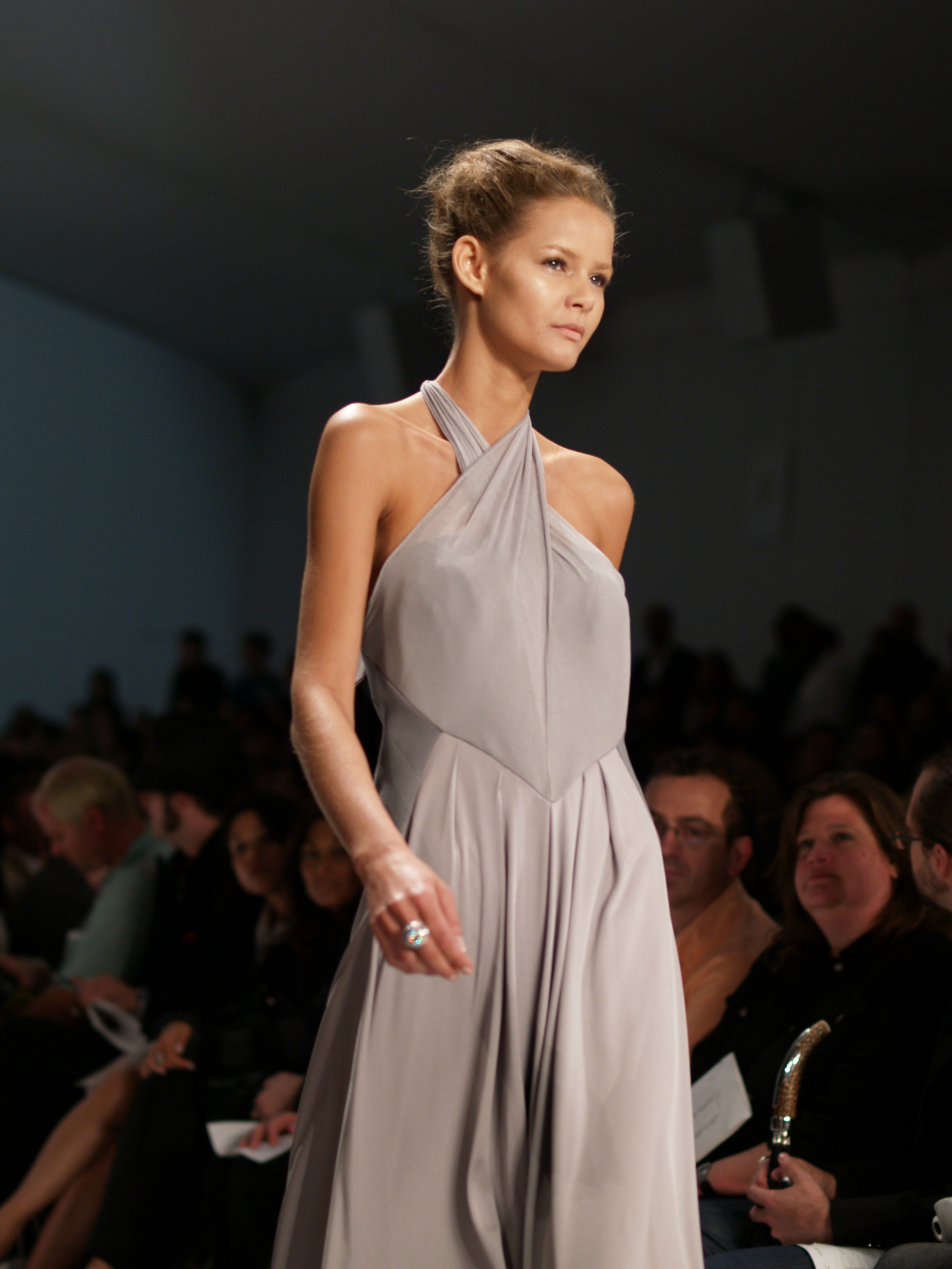 Model Flavia de Oliveira modeling for Doo.Ri, Fall 2006 show, New York Fashion Week.